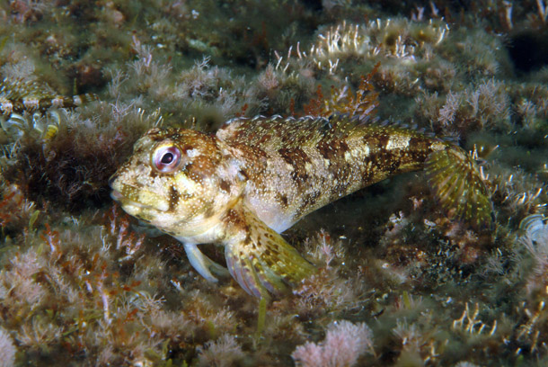 Paralipophrys trigloides photographed on Tuscany coasts (Italy). Photo by Stefano Guerrieri.